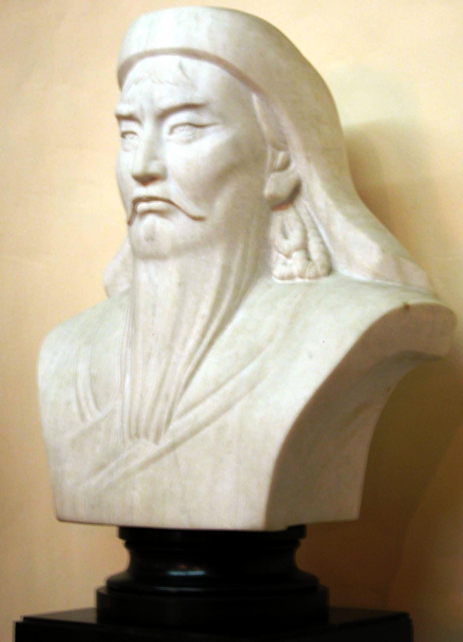 A bust of Genghis Khan adorns a wall in the presidential palace in Ulan Bator, Mongolia.